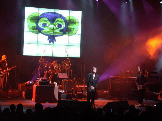 Onnine Ibalgwan's first concert, December 12, 2002.